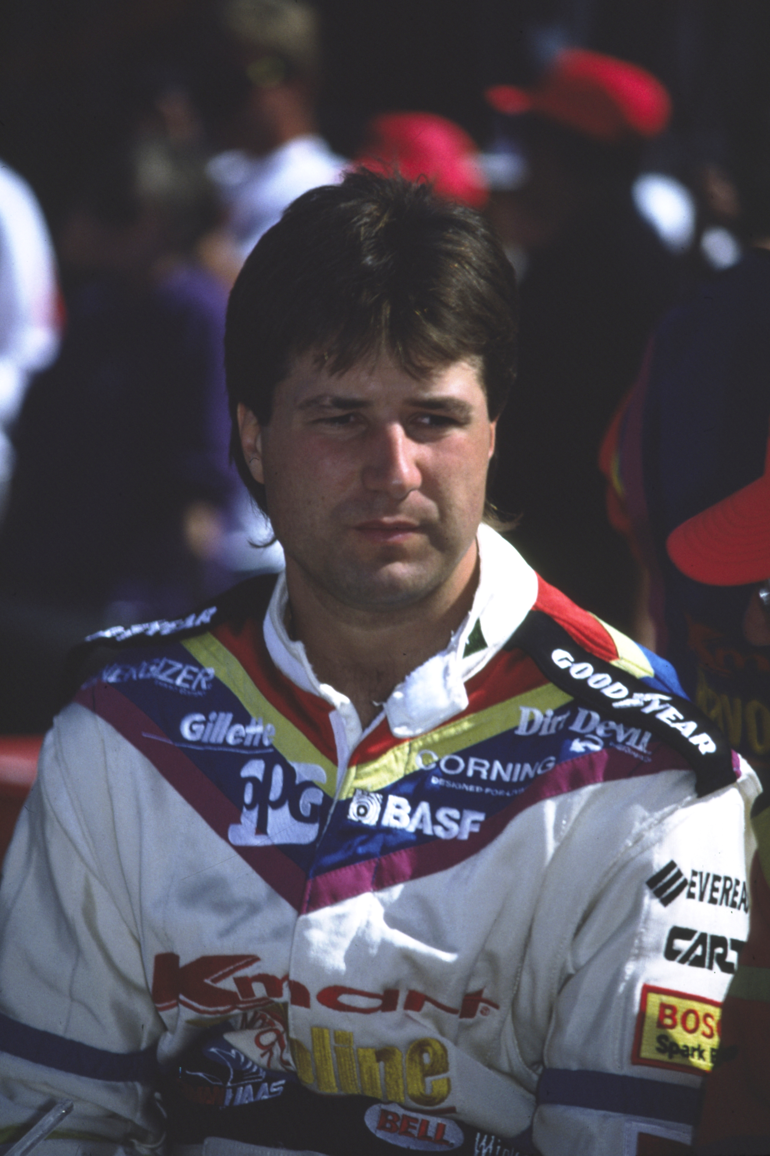 1991 CART Race - Laguna Seca - October 1991 - Michael Andretti just before the start of the race that he would win, earning him the PPG Cup championship for the 1991 season.